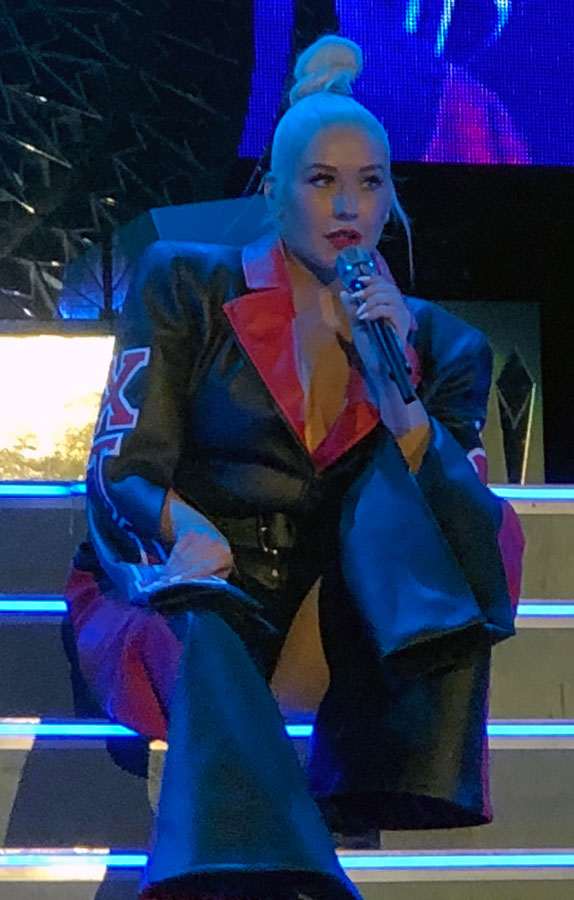 American recording artist Christina Aguilera performing "What a Girl Wants". The performance took place at the Pepsi Center in Denver, Colorado, on October 19, 2018.